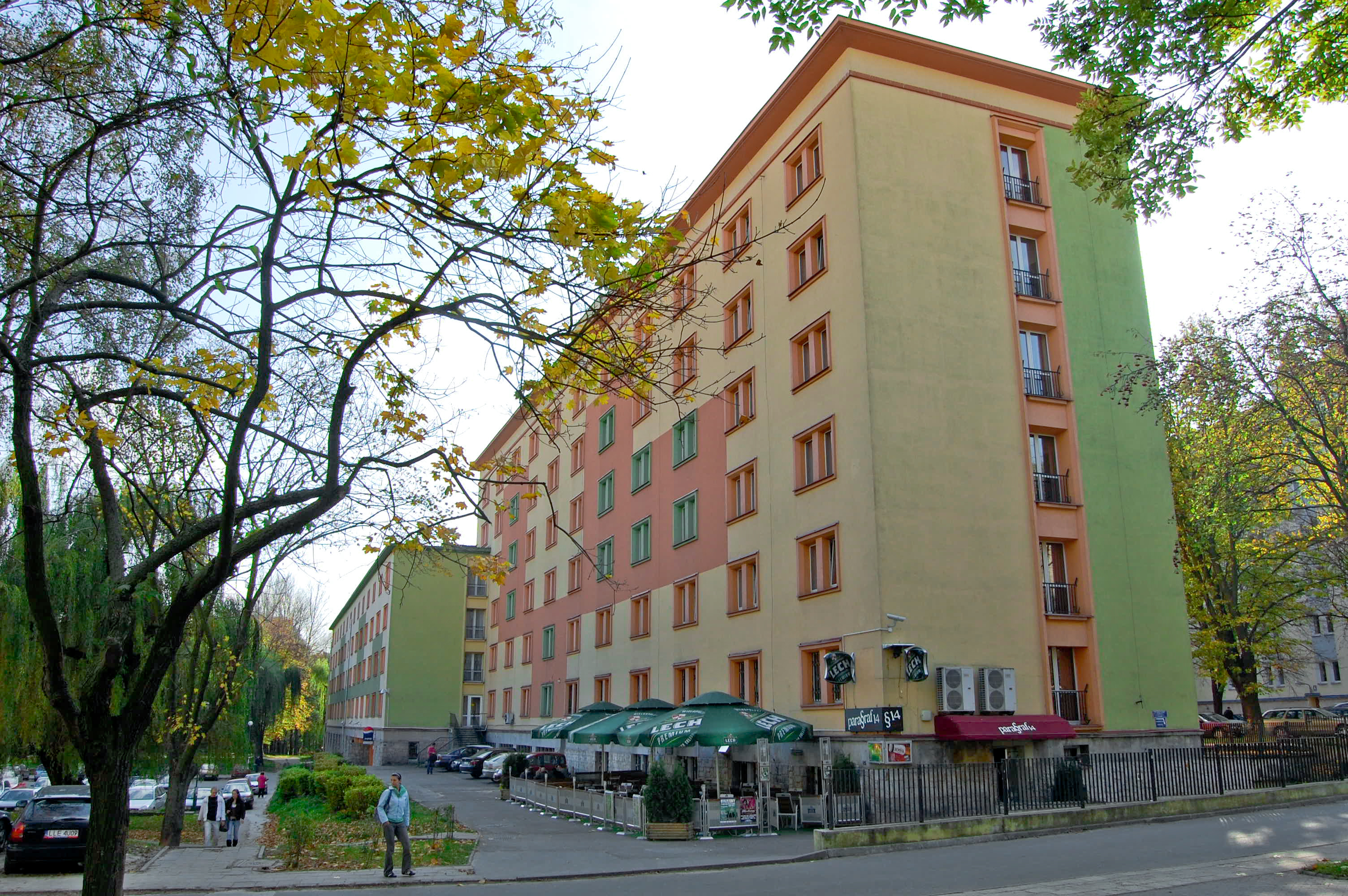 Babilon and Amor dormitories, UMCS in Lublin